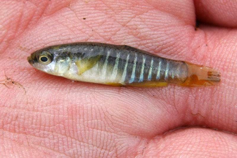 Male Apanius fasciatus photographed near Grosseto (Tuscany, central Italy). Photo by Paolo Fastelli, Massimiliano Marcelli and Flavio Monti.